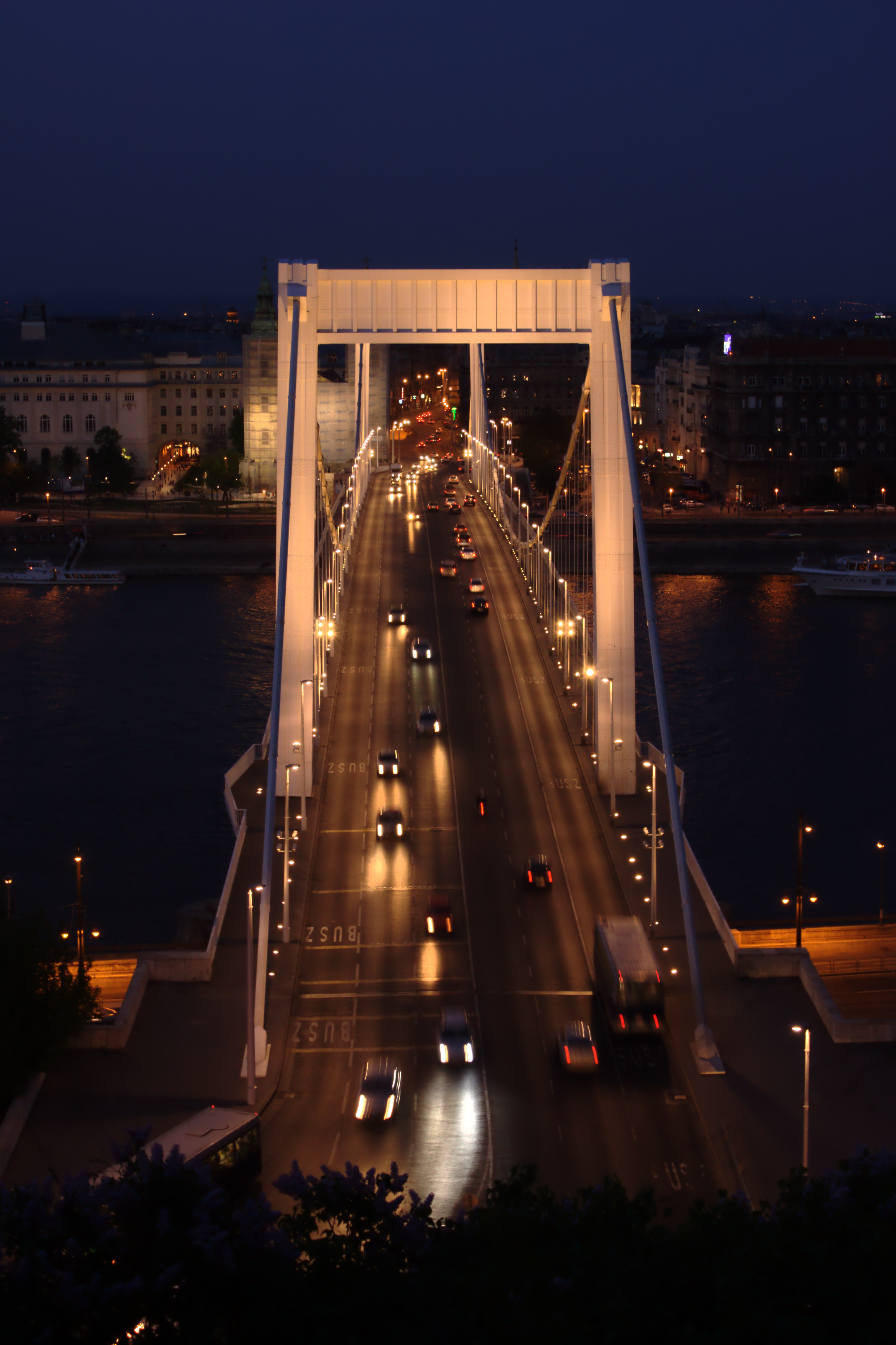 Erzsebét híd bridge in Budapest in evening seen from the Buda side, from the Gellért-hegy hill, Hungary